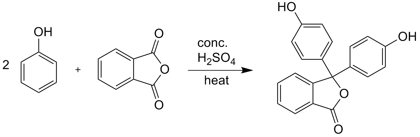 Phenolphthalein synthesis